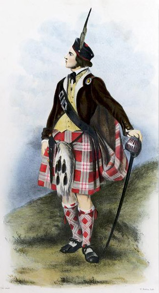 "Menzies". A plate illustrated by R. R. McIan, from James Logan's The Clans of the Scottish Highlands, published in 1845.